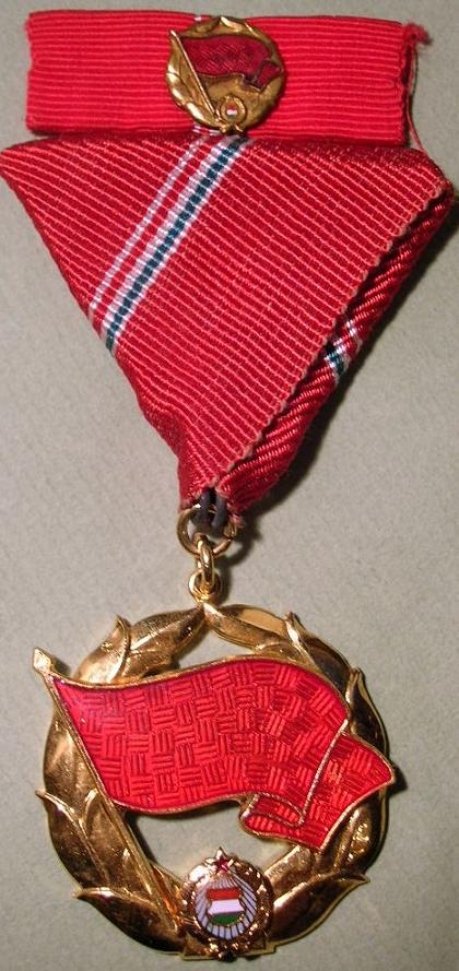 Hungarian Order of the Red Banner